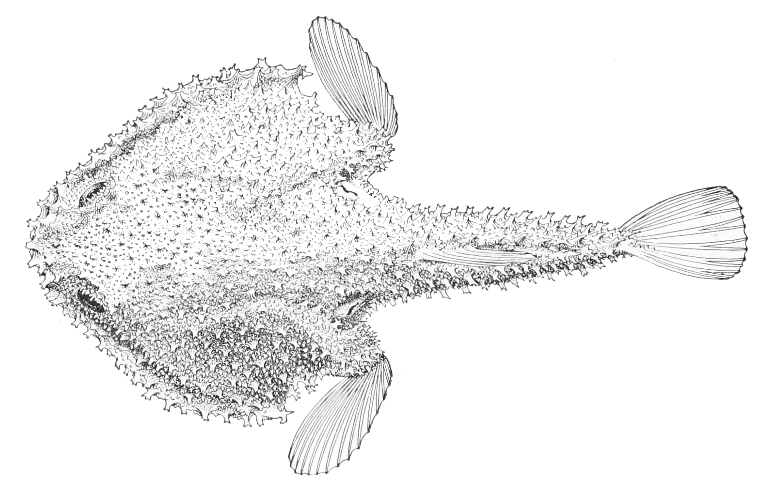 Solocisquama erythrina